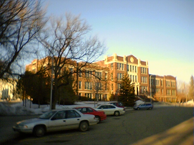 Old Main at Minot State University. This picture taken by Alexwcovington and free under the GNU FDL.